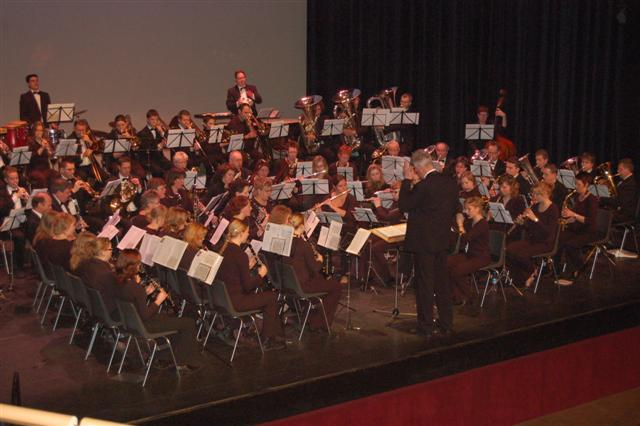 Excelsior 100 anniversary concert; music association Excelsior from Winterswijk, Netherlands.